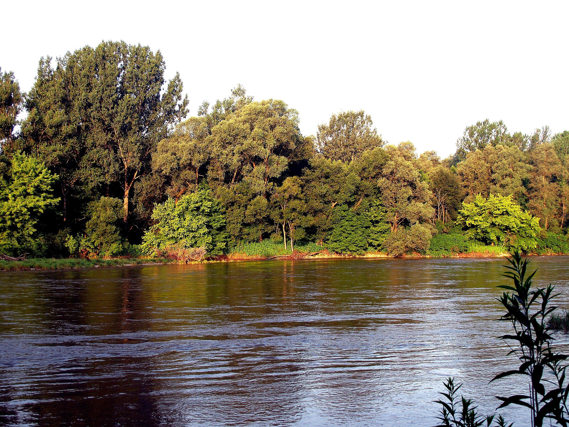 Mura river - Slovenija - the last »Amazon« forest in Europe, under the threat of the hidropower corporations